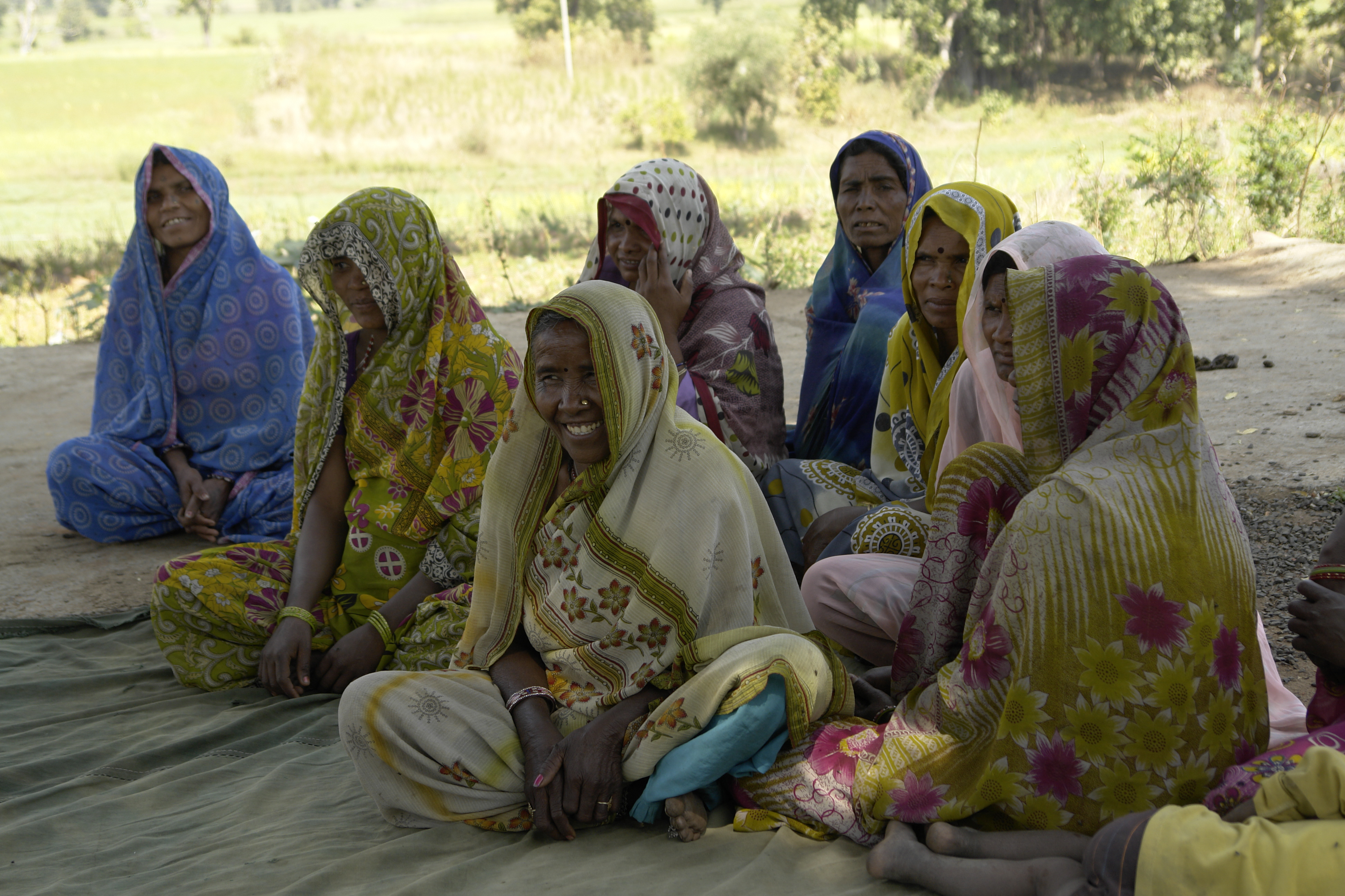 Women in Gauhadi, district Raisen, MP, India.